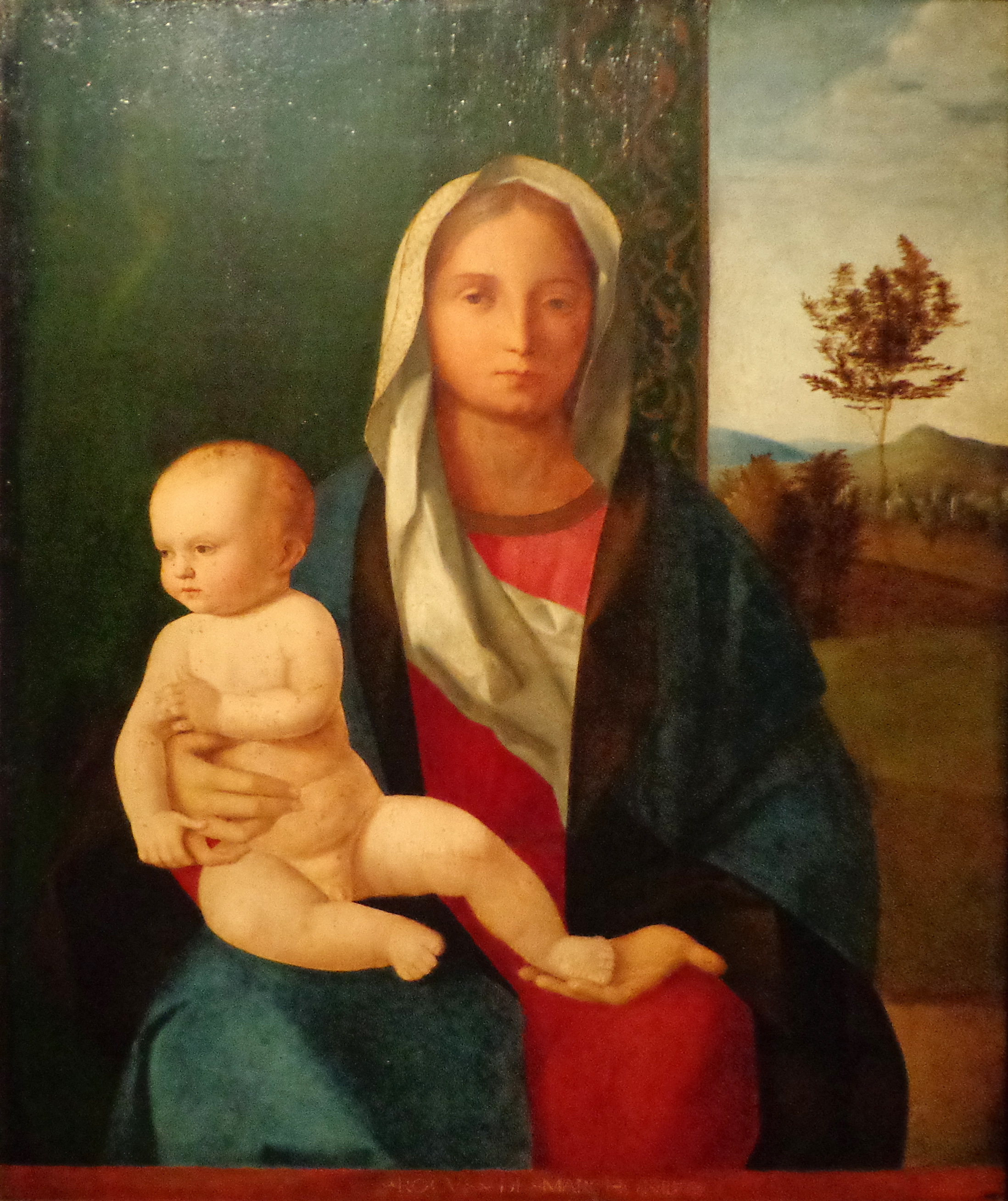 Renaissance Virgin and Child from Italy in Strasbourg's Museum of Fine Arts